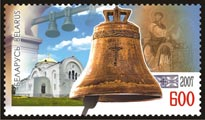 Stamp of Belarus